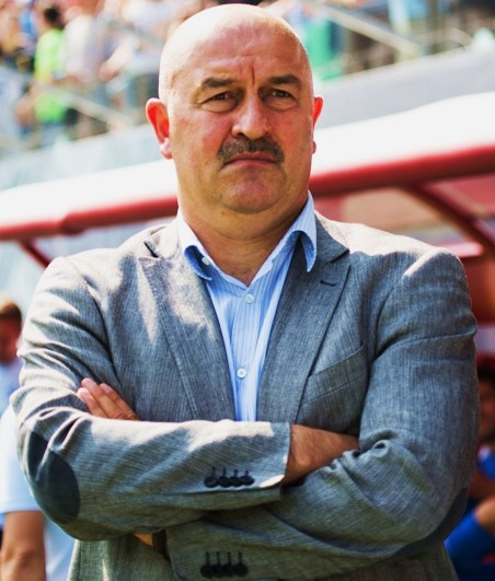 Stanislav Cherchesov 1